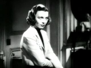 Cropped screenshot of Margaret Sullavan from the trailer for the film Three Comrades